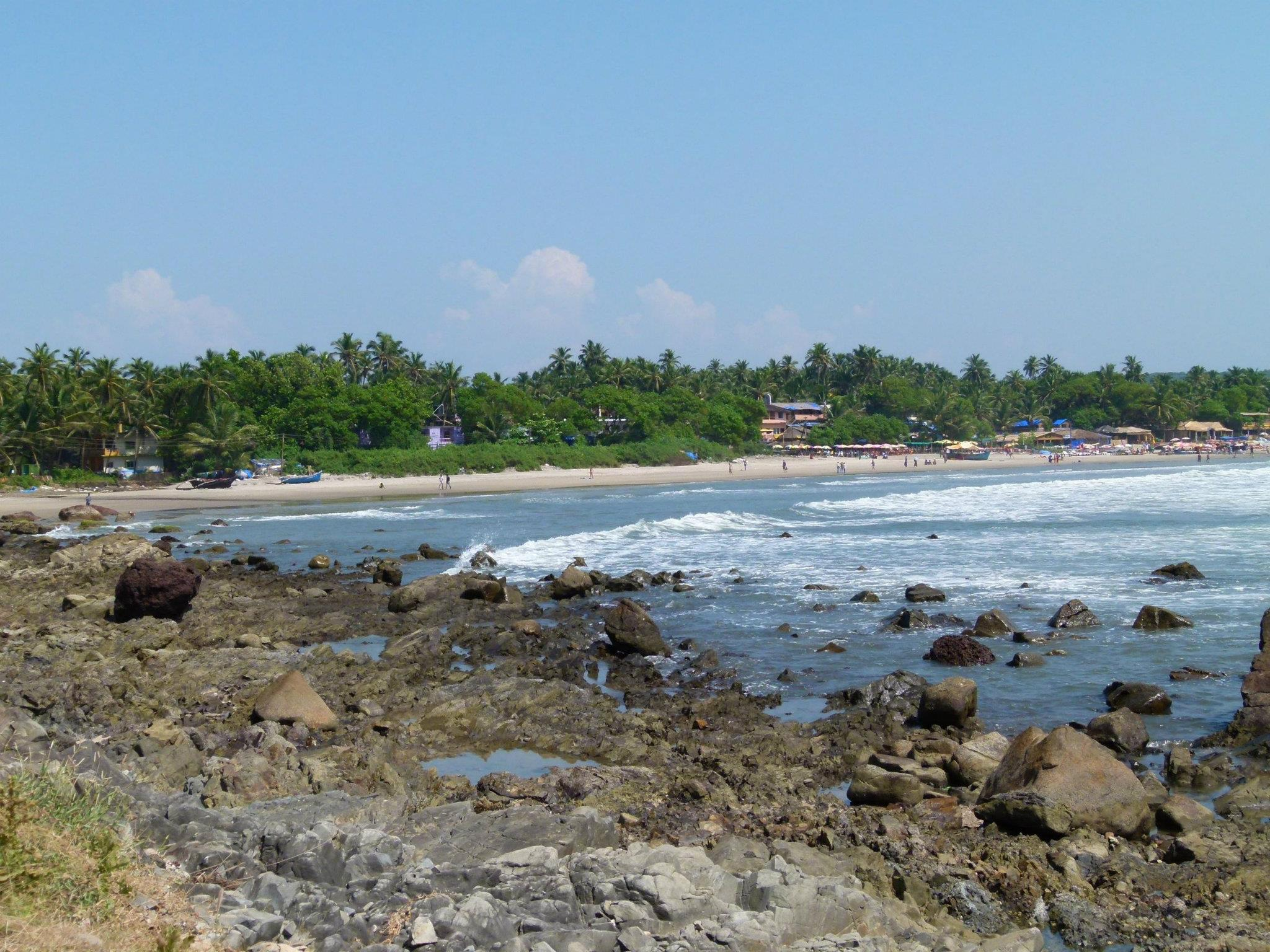 Arambol Beach Rocky Side View, Arambol Beach, Goa